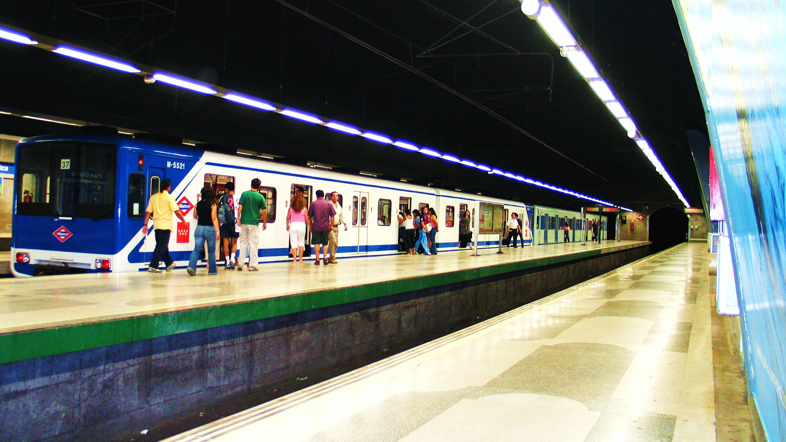 Platform of Madrid's metro station "Plaza Elíptica" (line 6